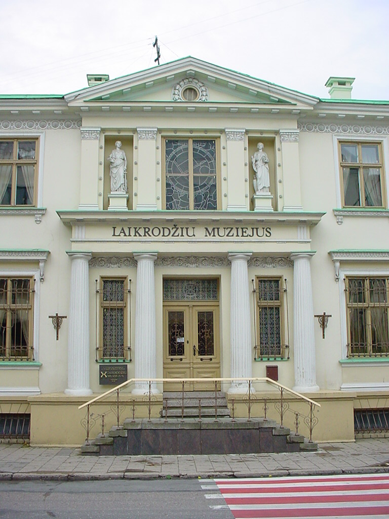 Clocks museum in Klaipėda.